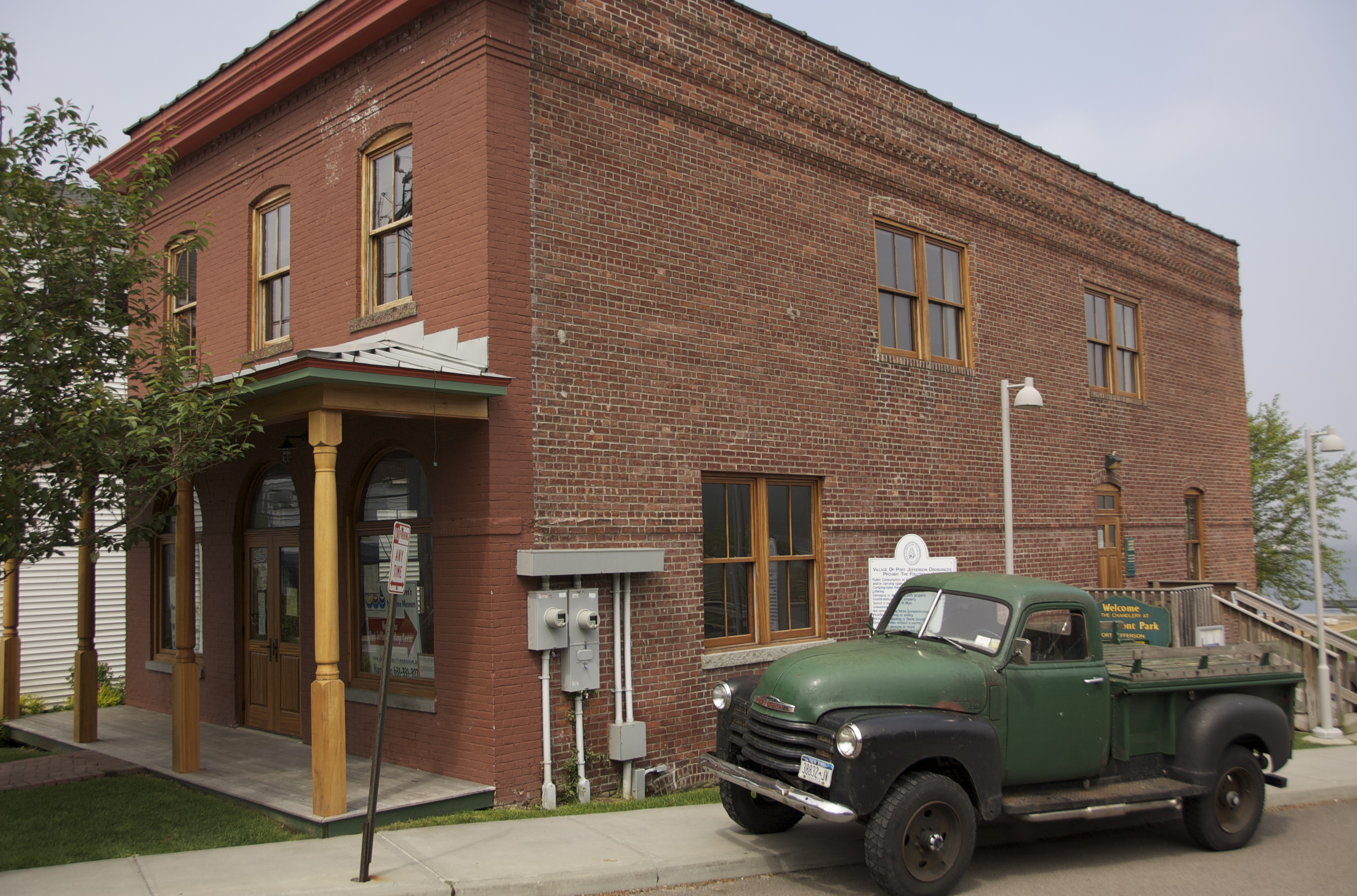 Building and old truck in Port Jefferson, NY. Chandlery